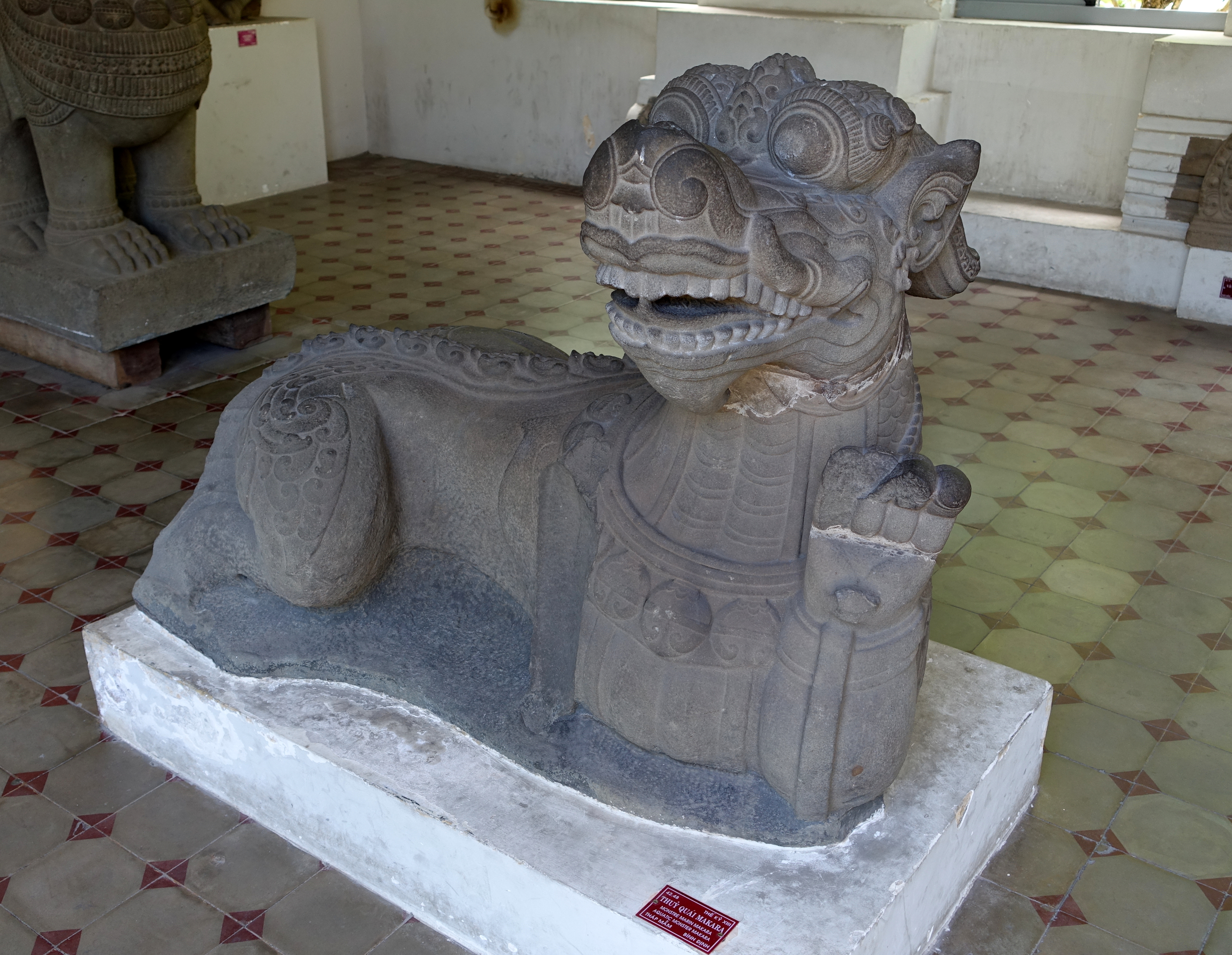 Cham sculpture at the Museum of Cham Sculpture, Da Nang, Vietnam. This artwork is in the public domain because the artist died more than 70 years ago.